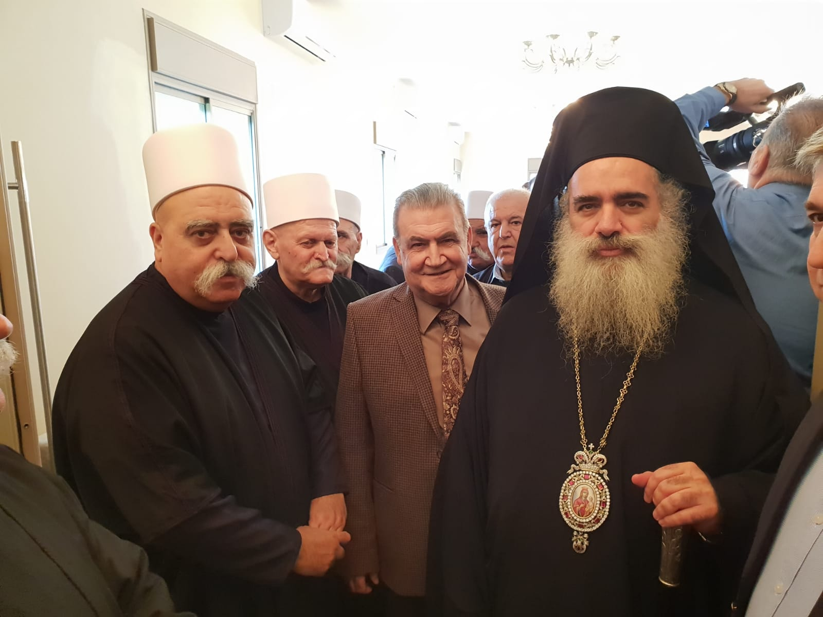 Mowafaq Tarif and Theodosios (Hanna) of Sebastia